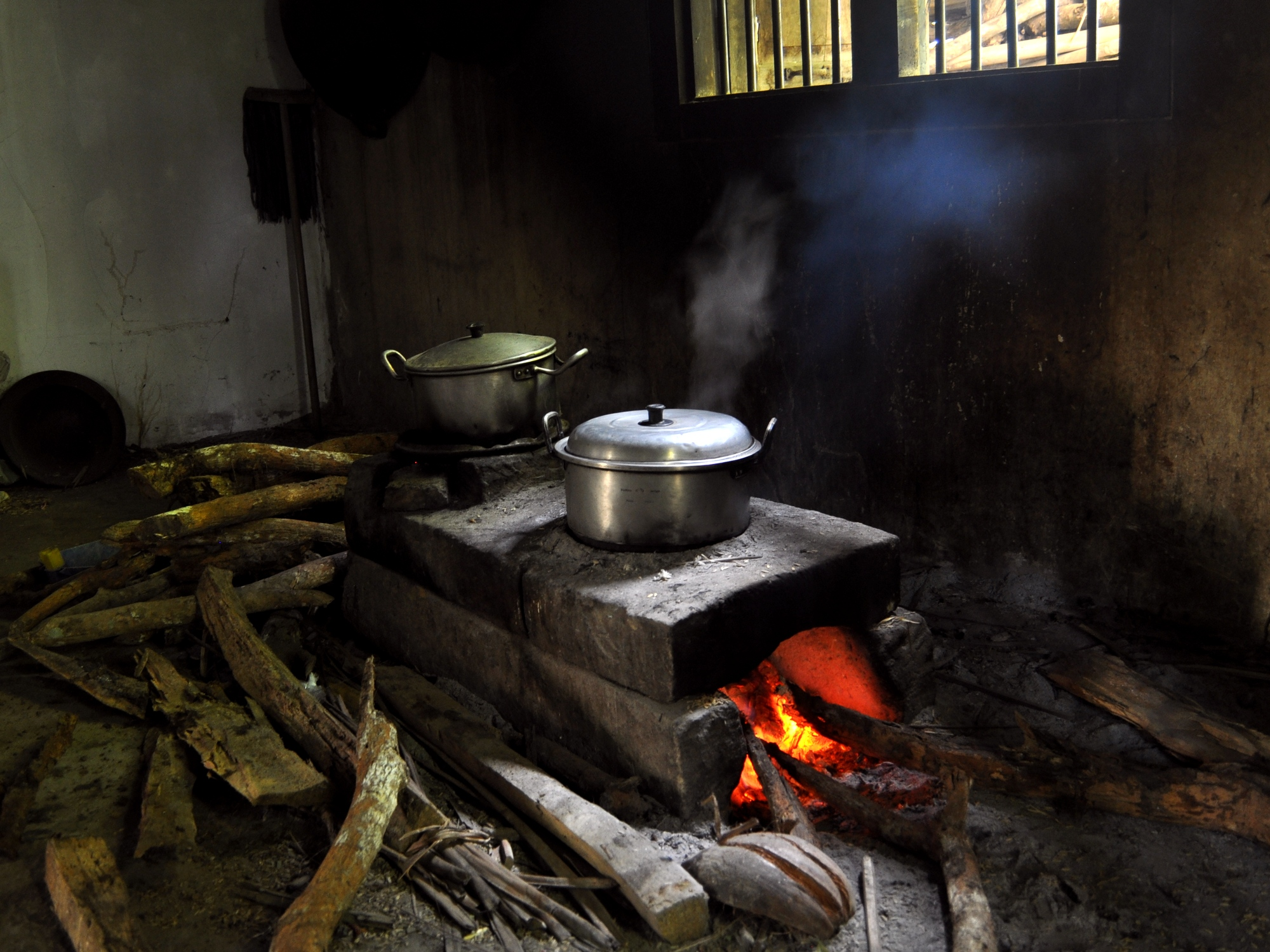 Traditional wood-burning stove from Banyumas Regency, Central Java, Indonesia.